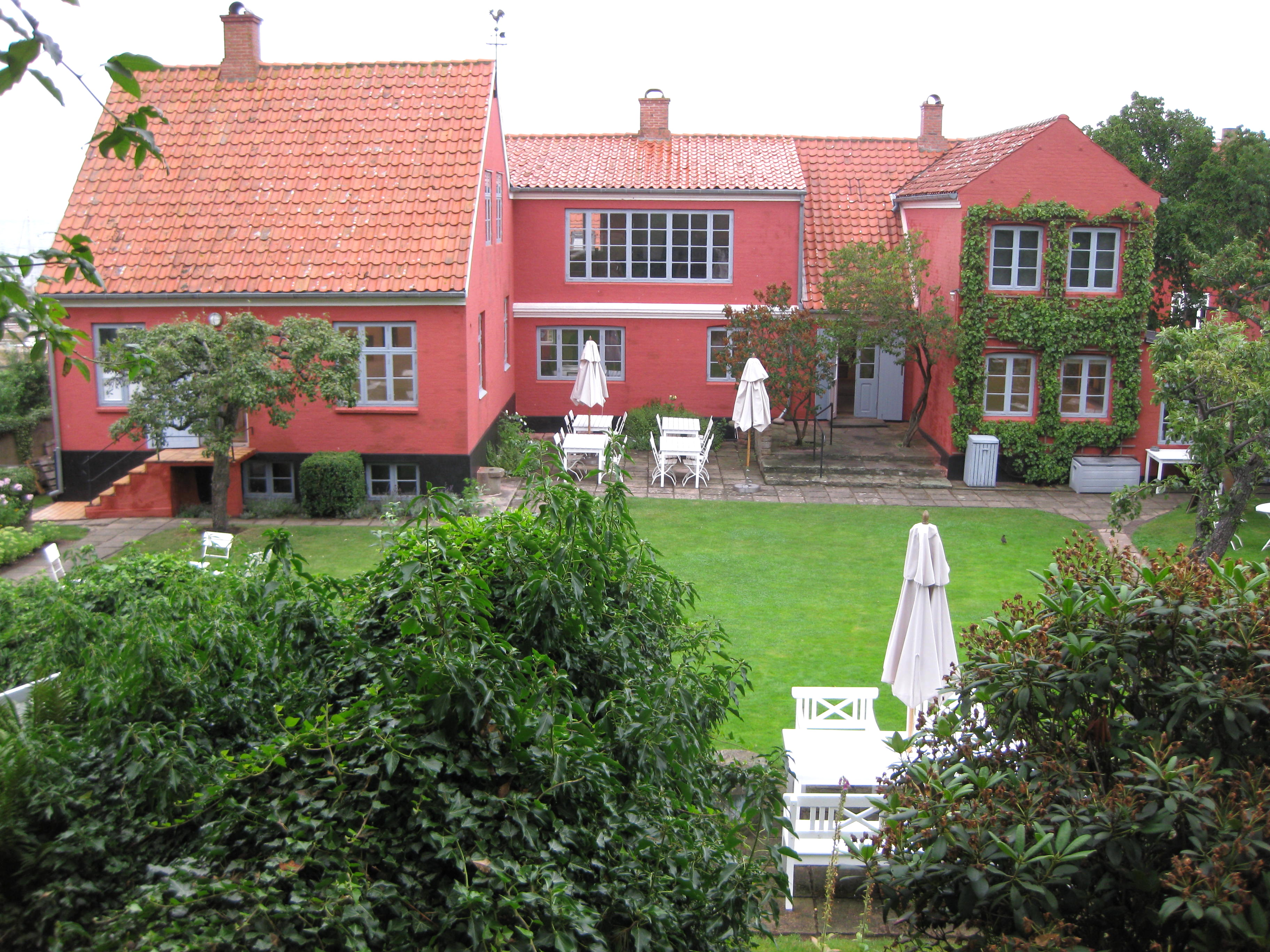 The art museum "Oluf Høst Museet" (Danish painter Oluf Høst 1884-1966), in the small town "Gudhjem" on the island Bornholm in east Denmark.